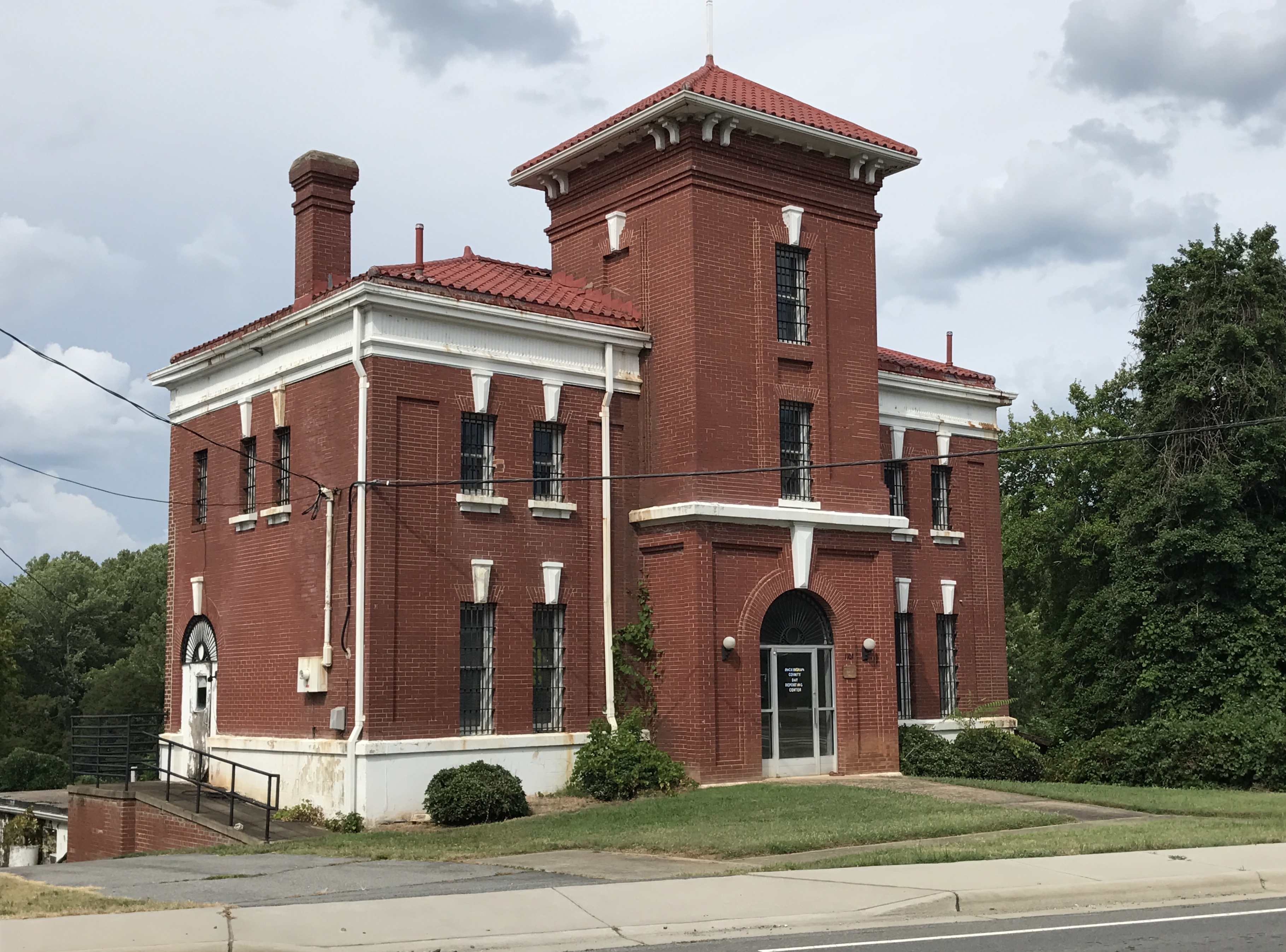 Old jail building in Wentworth